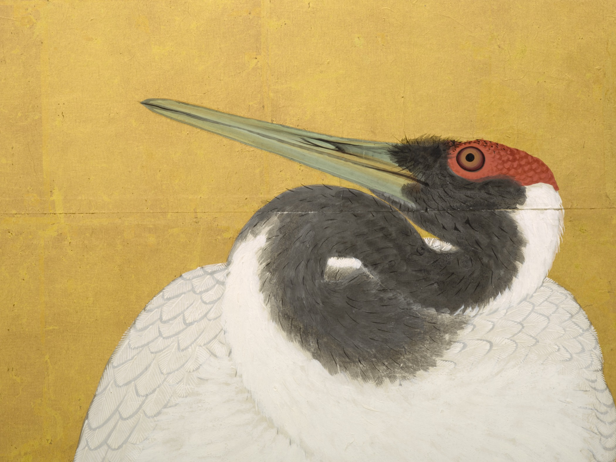 Japan, 1772, An'ei period (1772-1780) Paintings; screens Pair of six-panel screens; ink, color, and gold leaf on paper a-b) Mount: 67 1/4 x 137 3/4 x 3/4 in. (170.82 x 349.89 x 1.91 cm) each Gift of Camilla Chandler Frost in honor of Robert T. Singer (M.2011.106a-b) Japanese Art Currently on public view: Pavilion for Japanese Art, floor 3